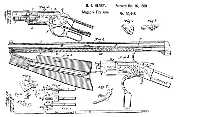 Patent drawing of the "Henry Rifle", the predecessor of the Winchester rifle